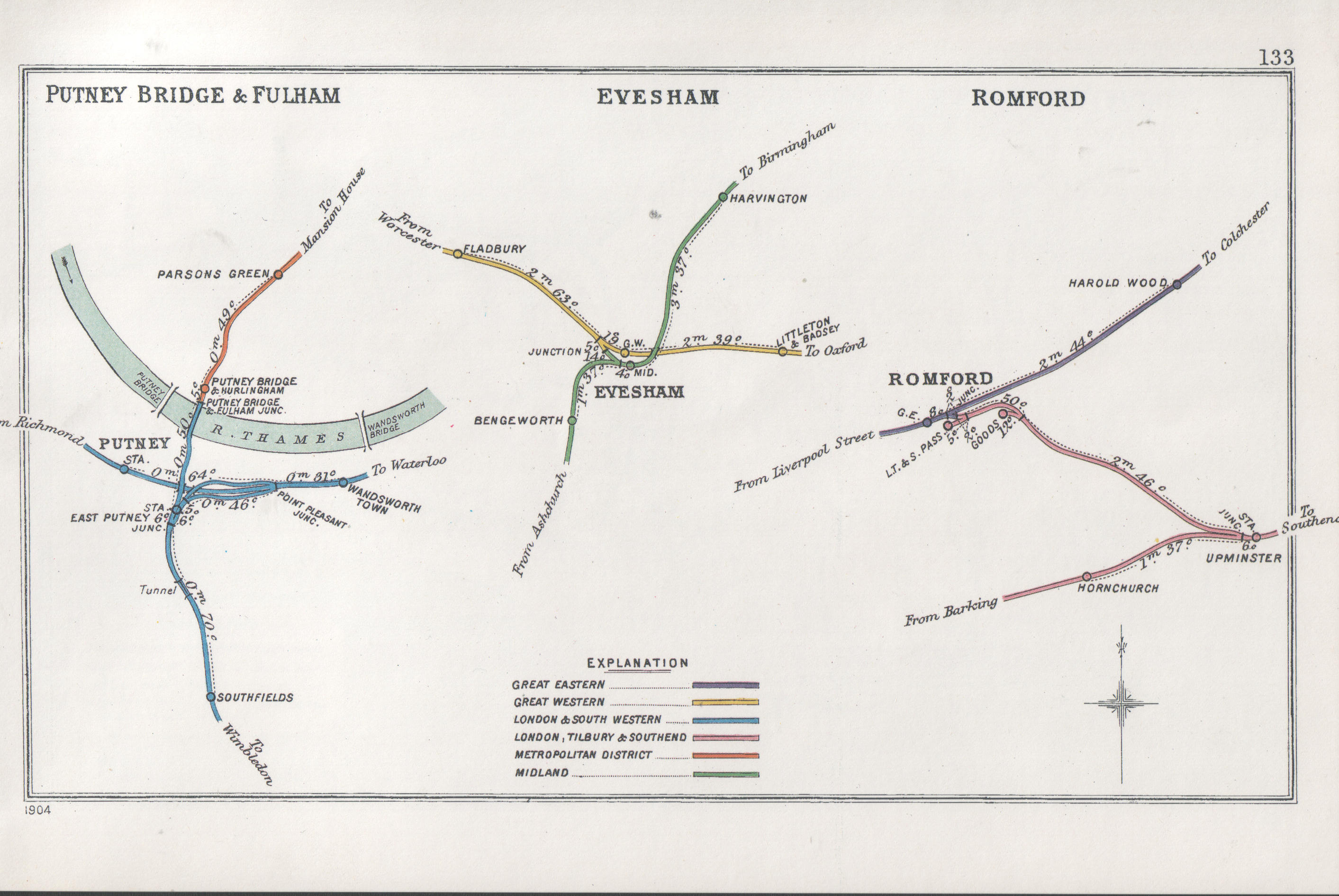 Pre Grouping railway junction around Putney Bridge & Fulham; Evesham; Romford